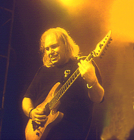 Didier Chesneau french guitar player